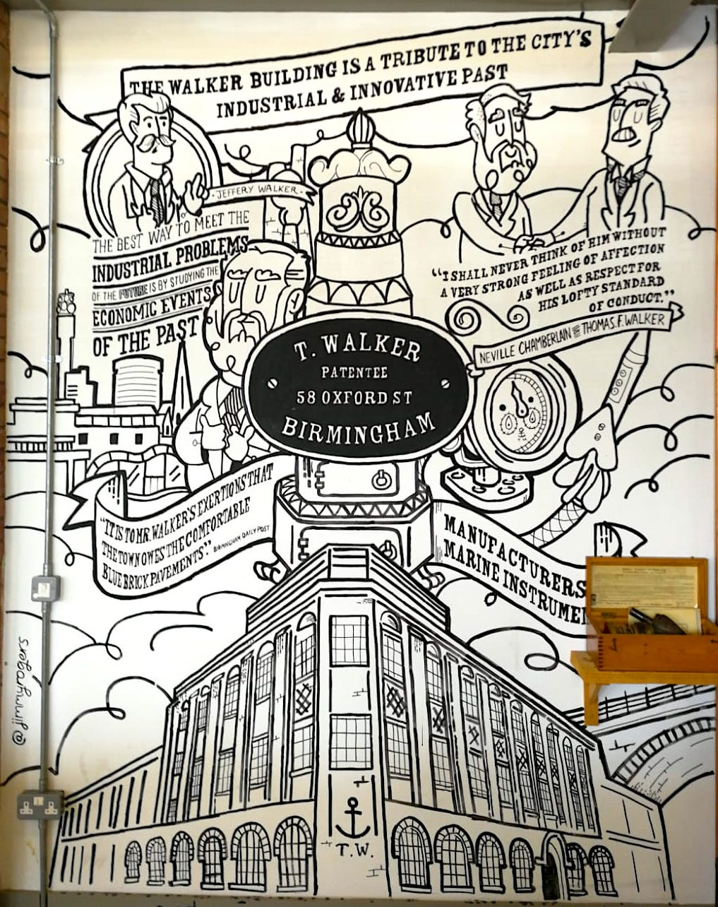 Mural at 28 Oxford Street, where Thos Walker & Son was based. On the right of the mural is a box containing a Walker log.